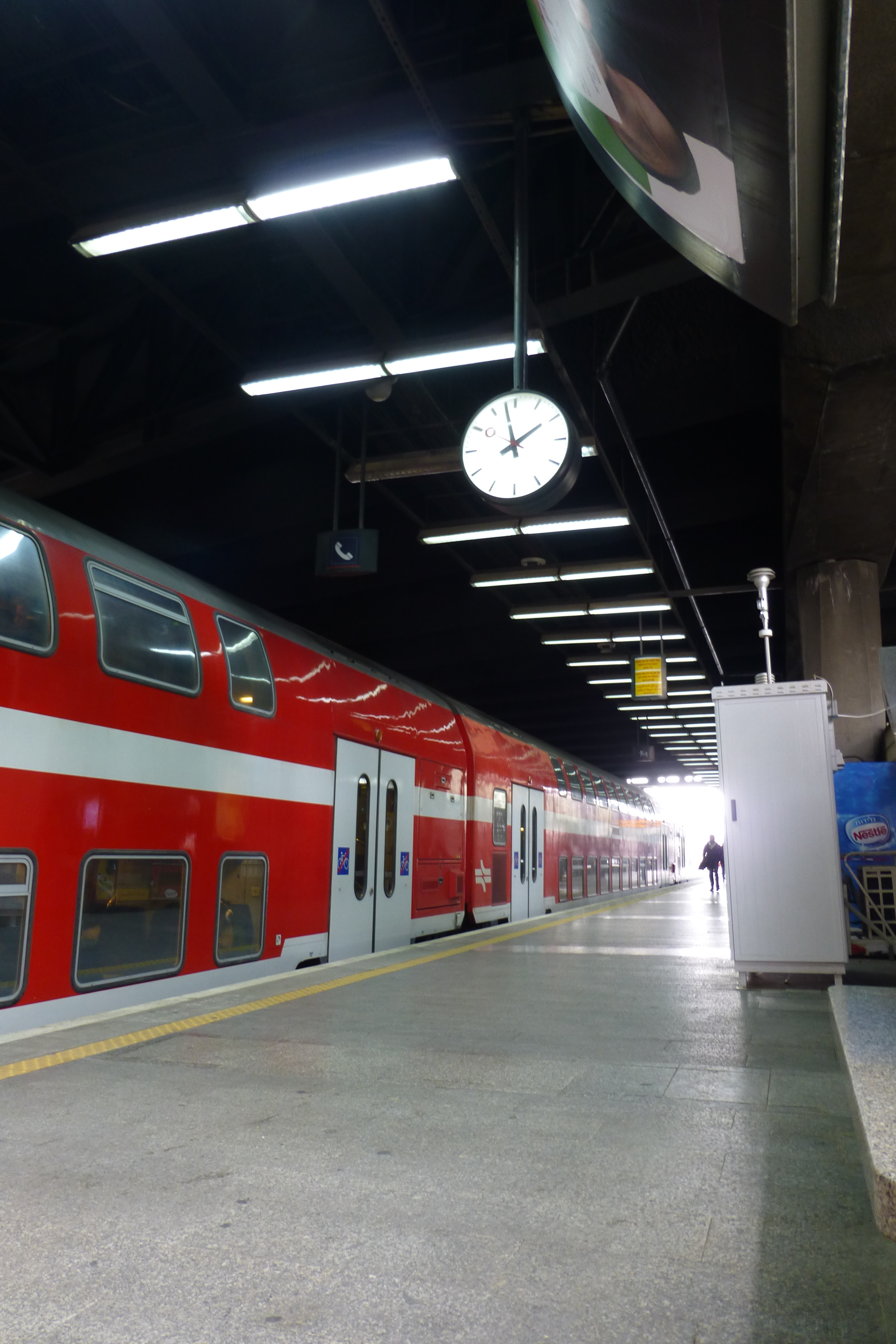 Tel Aviv HaShalom train station